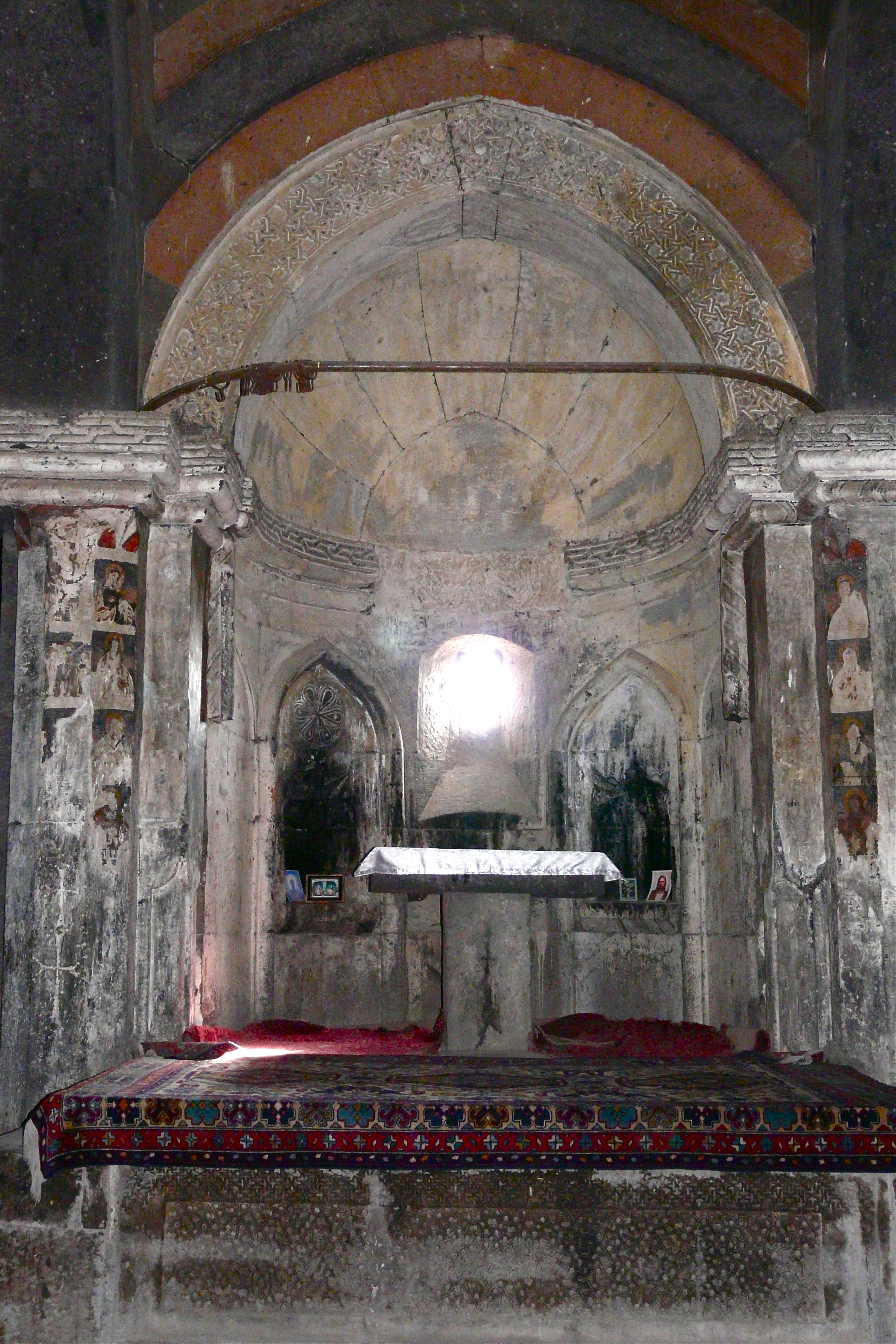 Matenadaran, Saghmosavank, Armenia.